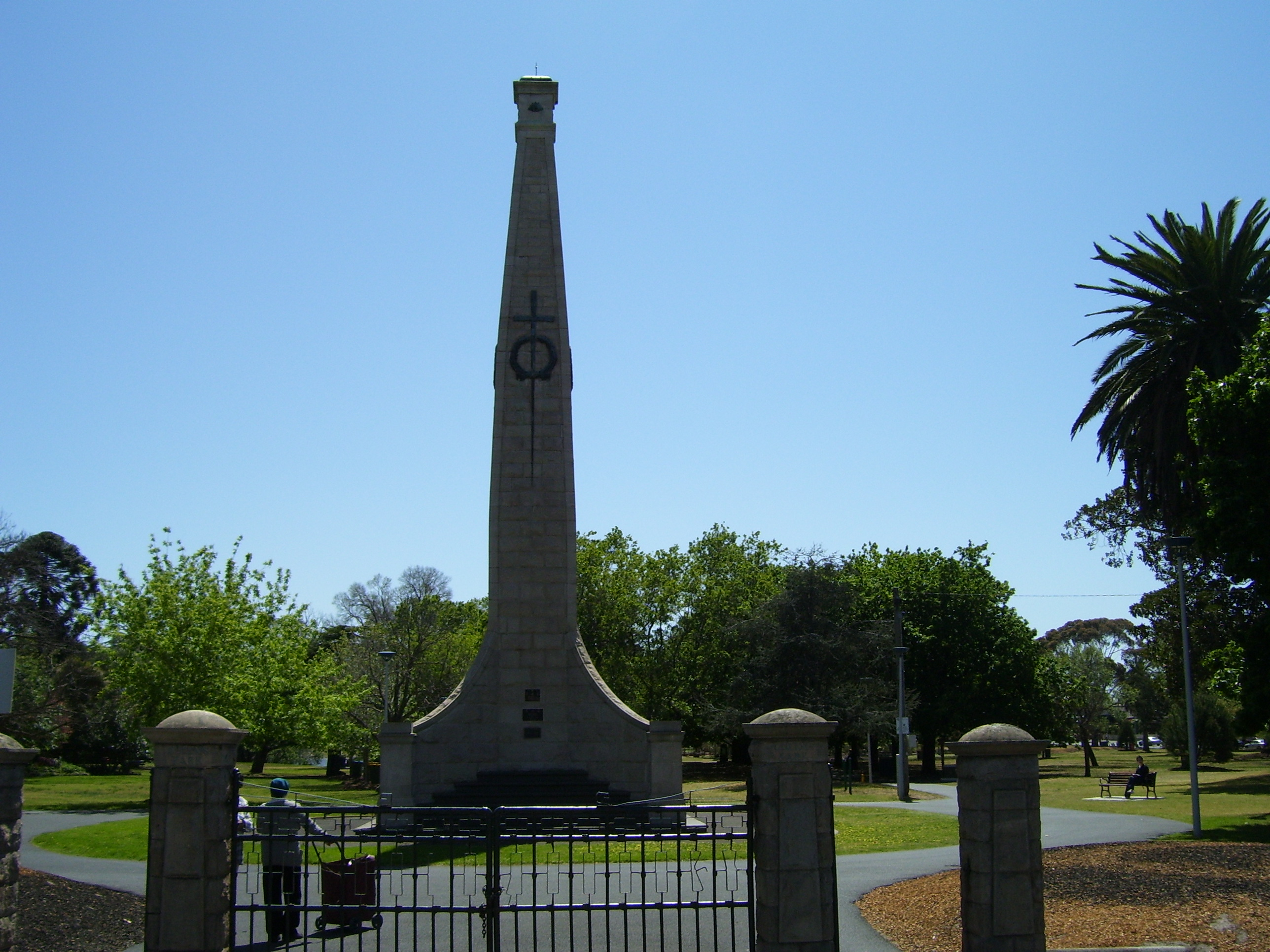 A world war memorial at Queens Park in Moonee Ponds